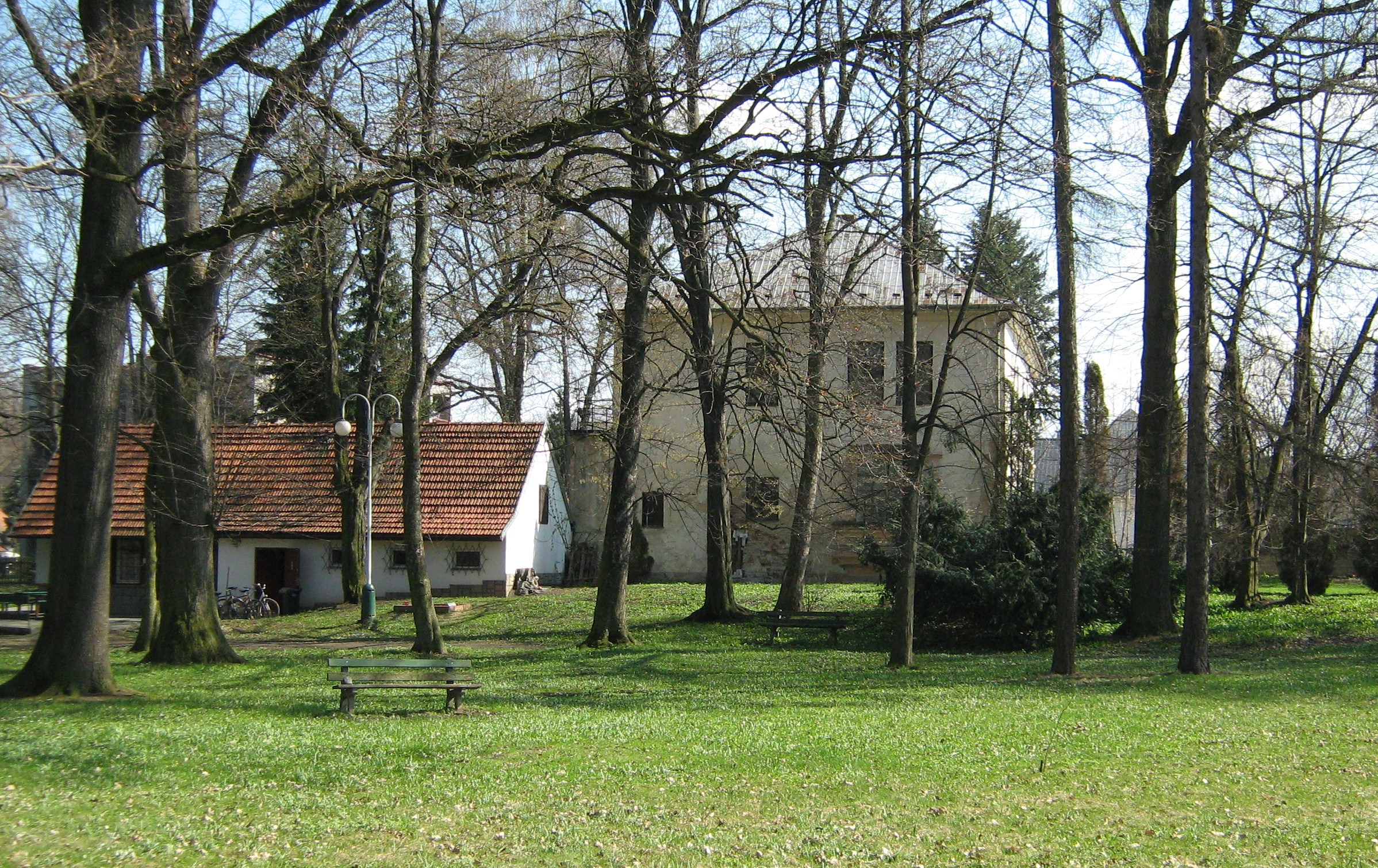 Castle in Sedlnice, Nový Jičín Distict